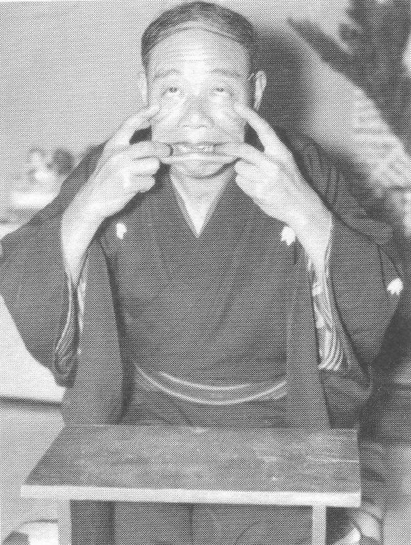 Shokaku Shifukutei V (Rakugoka).